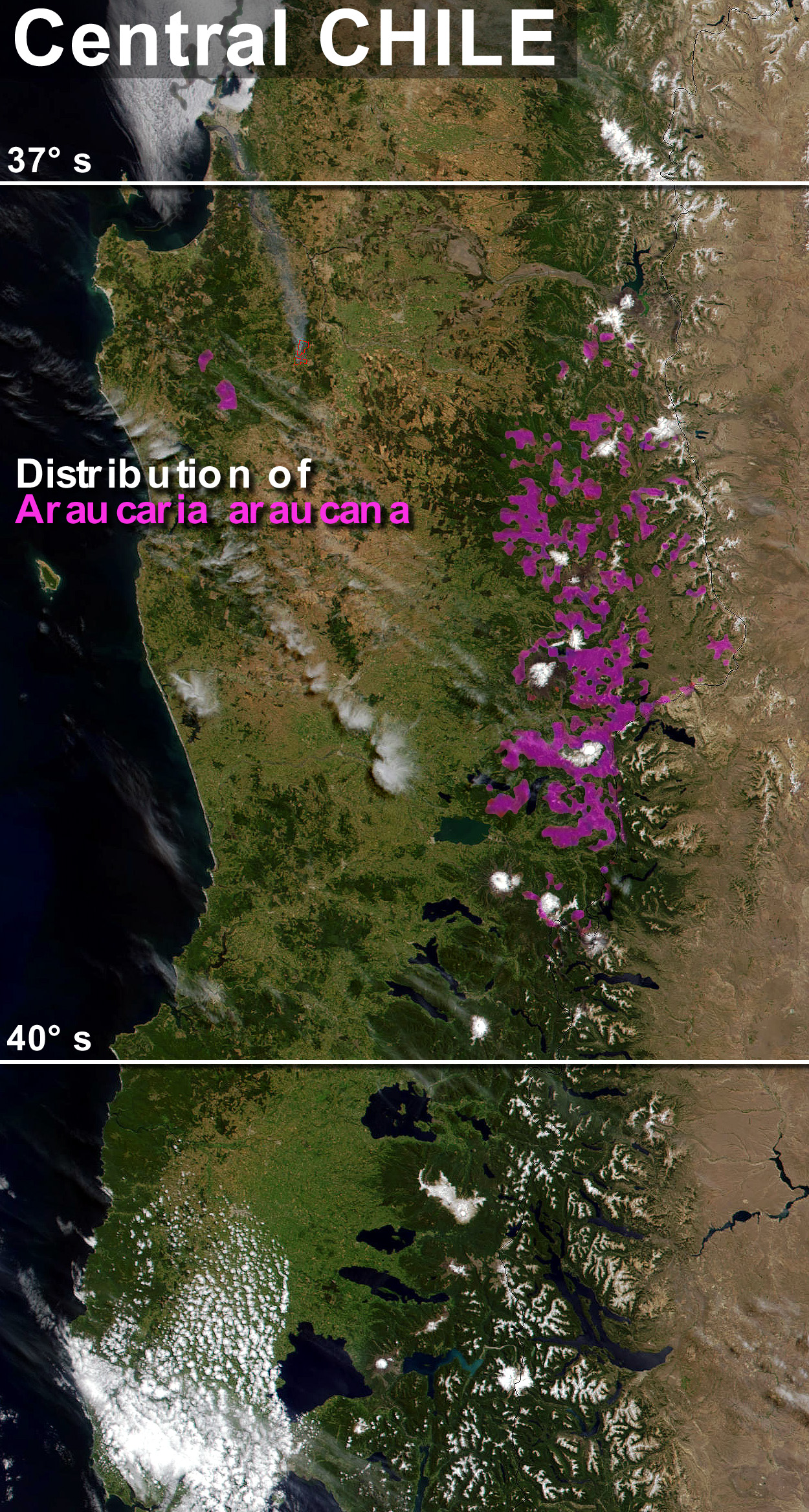 Distribution of Araucaria araucana in Central Chile. This was made using NASA Wold Windsoftware, photoshop and much reference on behalf of Stephen Hayden Photography